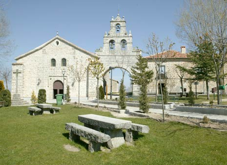 d